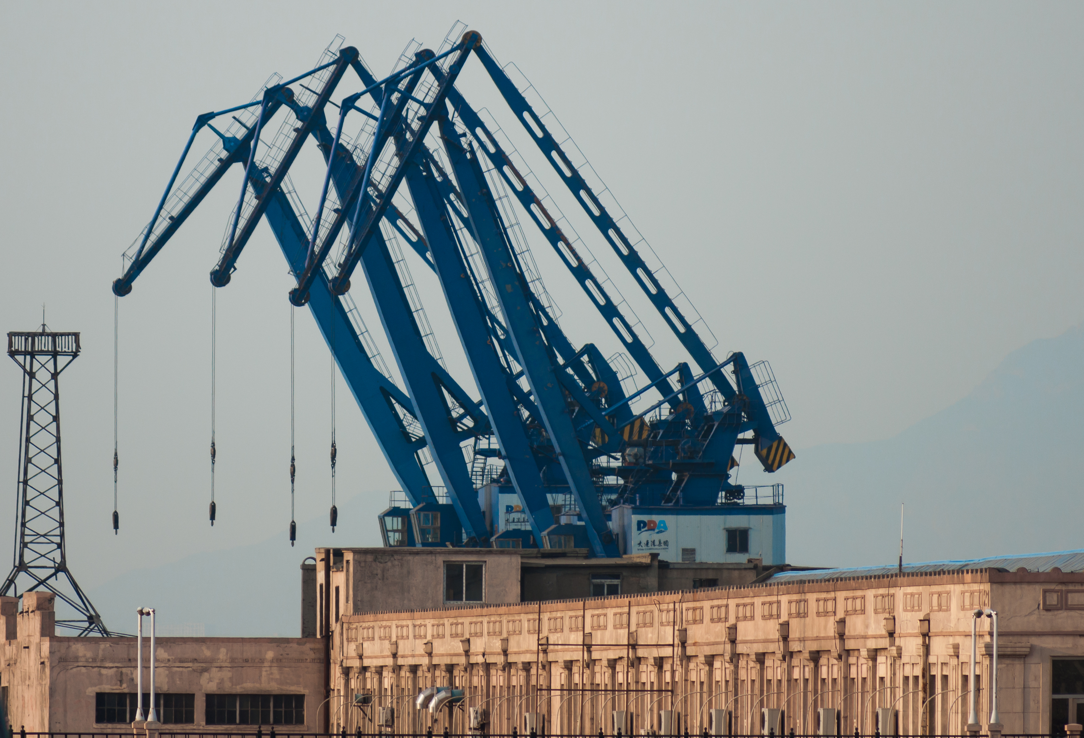 Dalian Liaoning China: Crane booms in Dalian Harbour